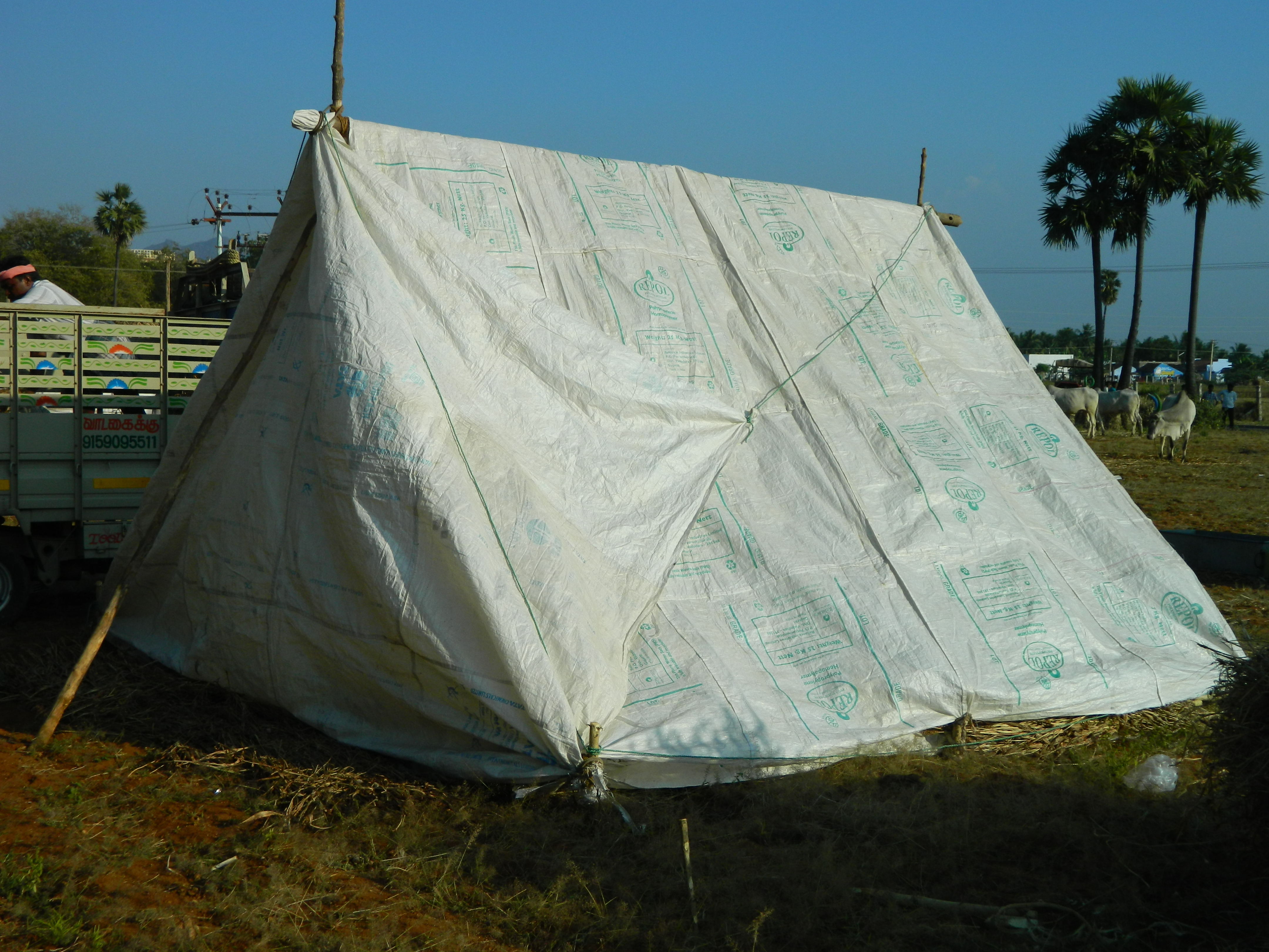 a close-up of Tent